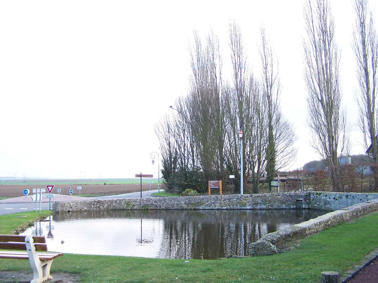 Watering place in Thoiry (Yvelines, France)